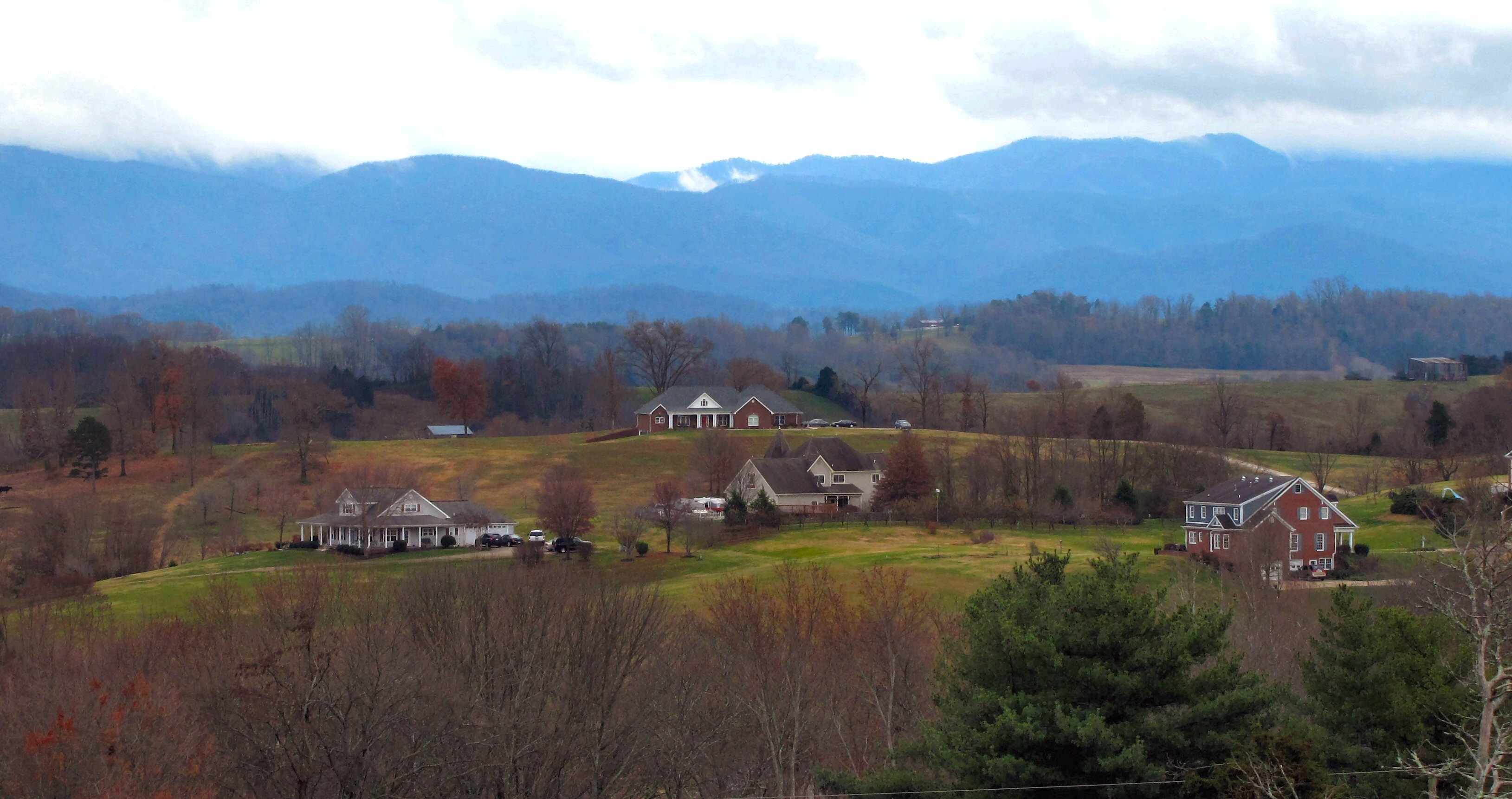 Rural Greene County, Tennessee, with the Bald Mountains (part of the Blue Ridge province) rising in the distance, viewed from the Andrew Johnson National Cemetery.